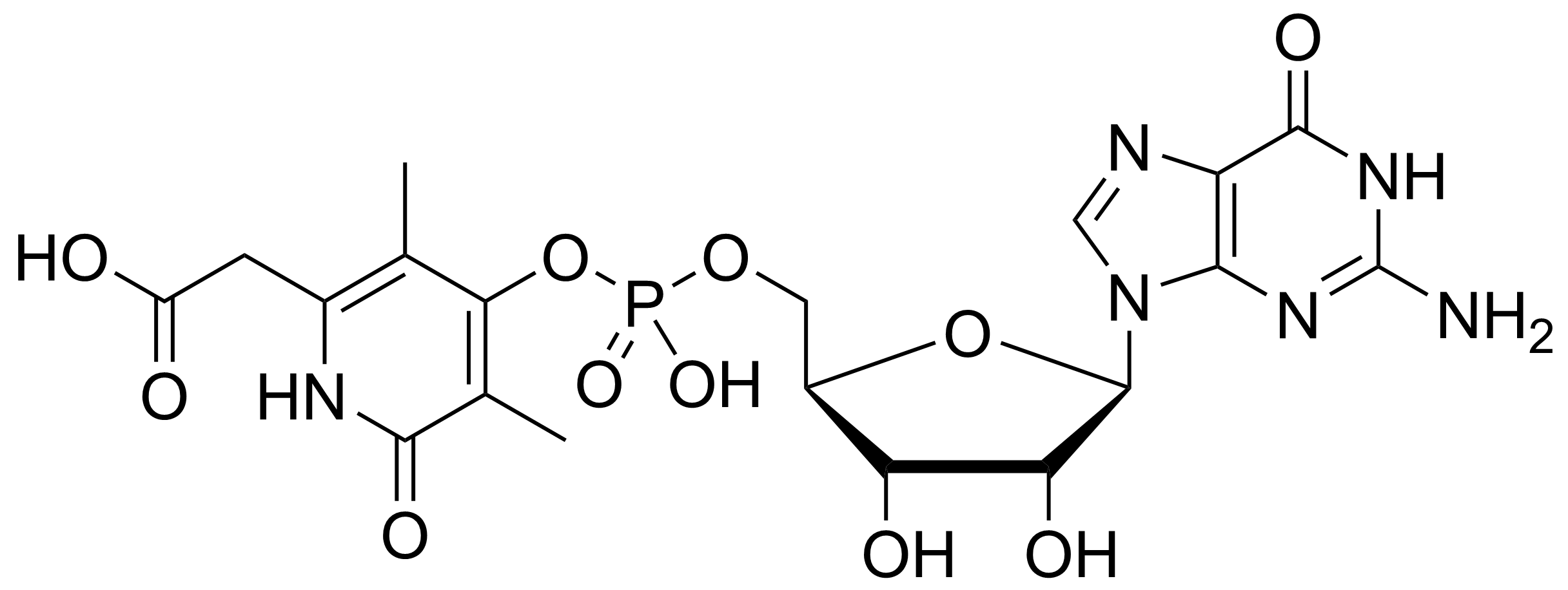 Skeletal structure of the cofactor of the 5,10-methenyltetrahydromethanopterin hydrogenase (Hmd) enzyme